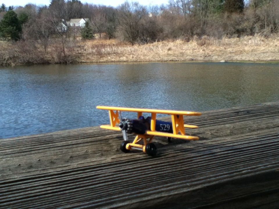 I decided to see what would happen to this model plane when I dropped it in a lake. I took this photograph right before I dropped the plane.